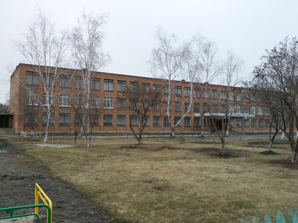 Семенівська школа 1